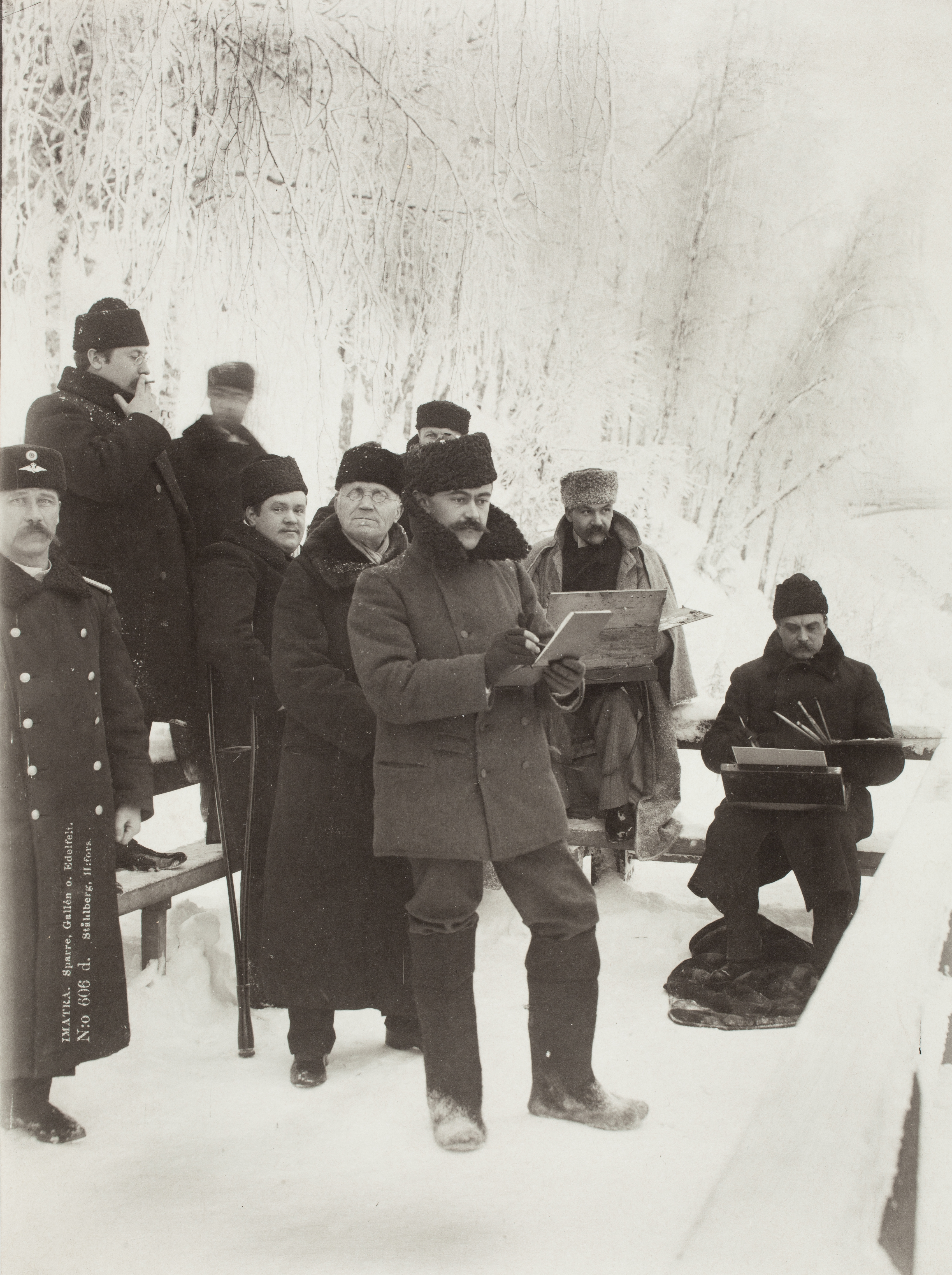 The Finnish artists Louis Sparre, Axel Gallén and Albert Edelfelt work at the Imatra rapids, 1890s.